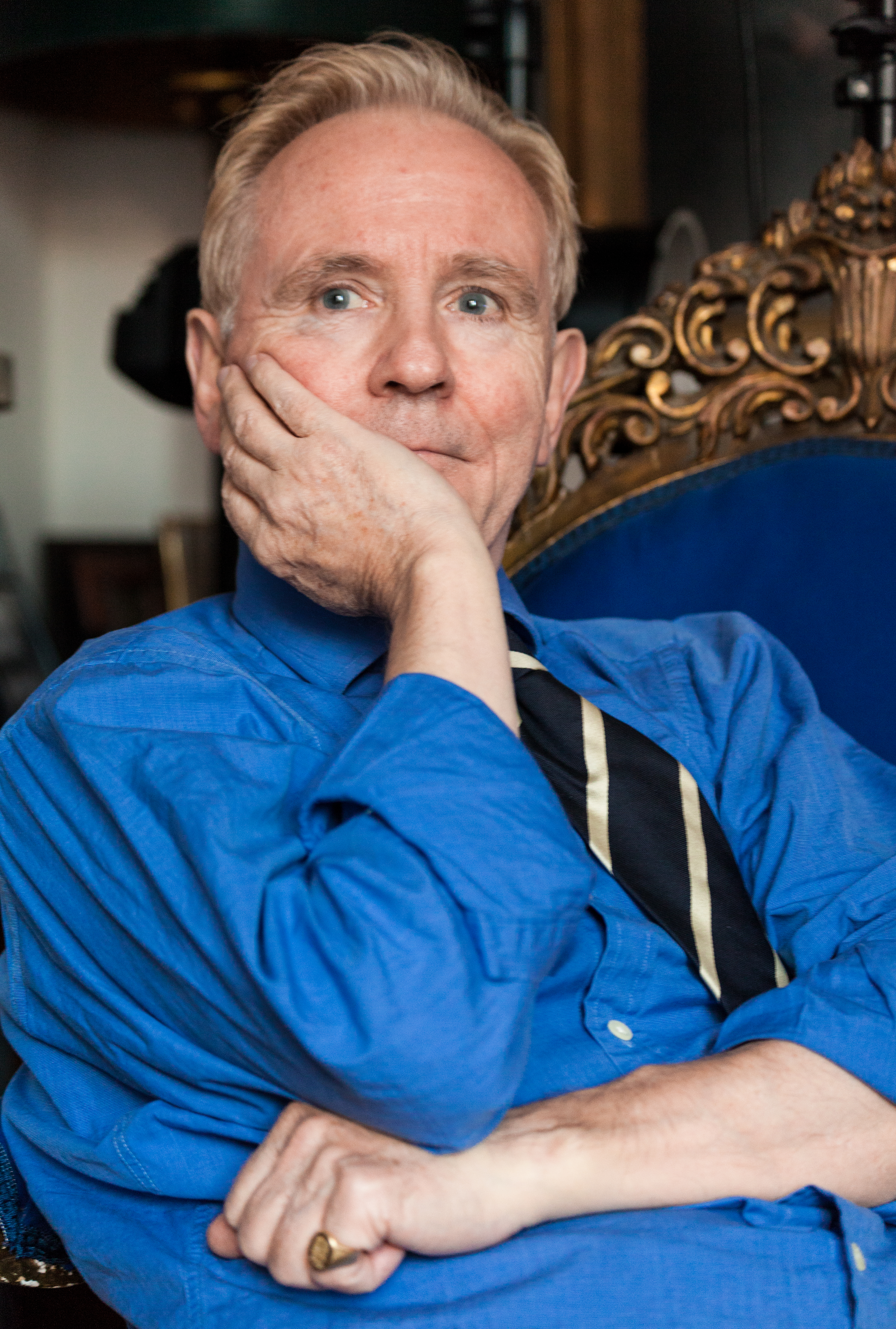 Allan Warren, English society-photographer, writer and former actor. Image taken at his apartment in London.